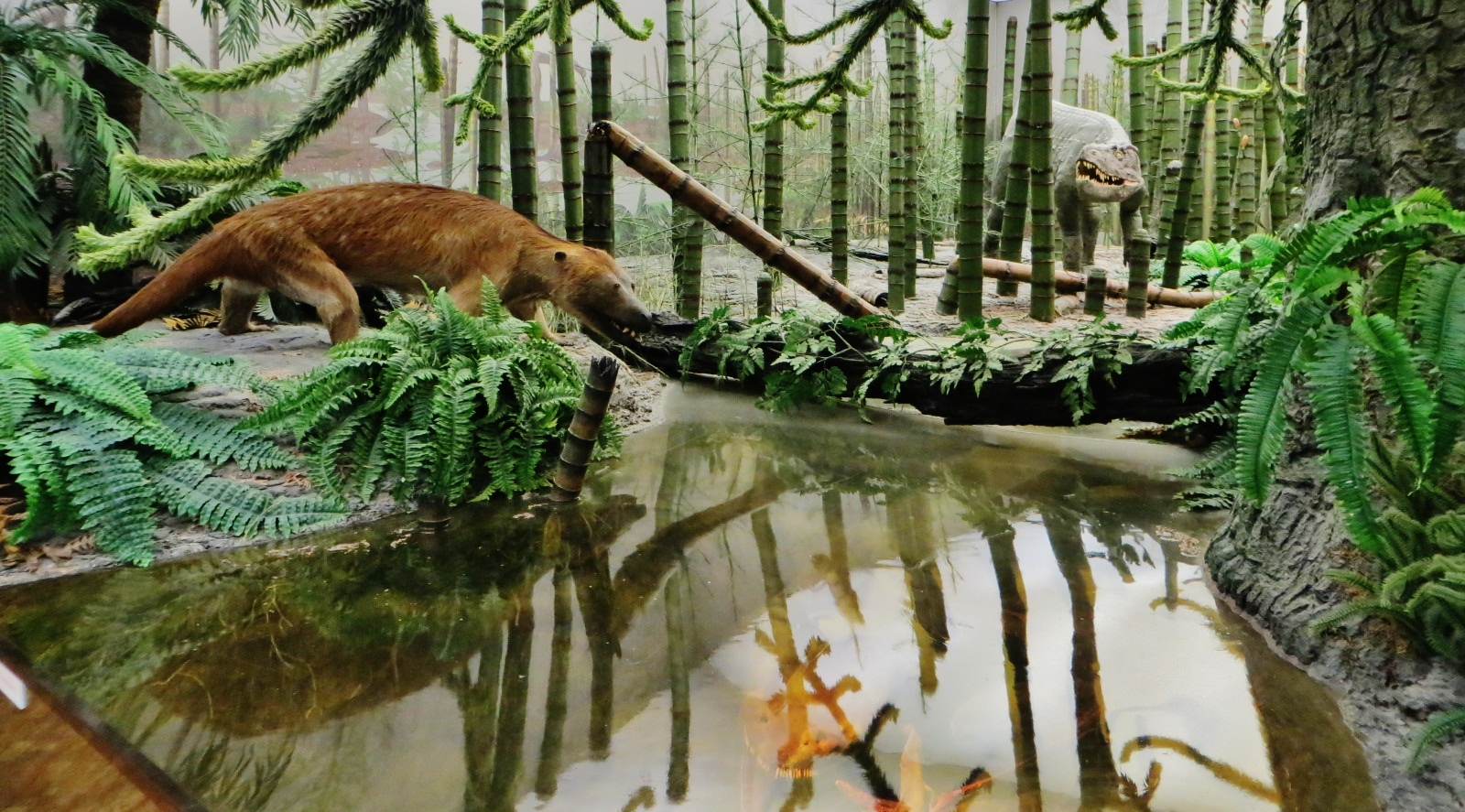 Reconstructed Triassic landscape at the Museum am Löwentor, Stuttgart (Germany), with Chiniquodon theotonicus (formerly also known as Belesodon magnificus; left), Batrachotomus kupferzellensis (right), and, poorly visible in the foreground below the water table, a large temnospondyl (probably Mastodonsaurus giganteus). Chinquodon theotonicus and Batrachotomus kupferzellensis, however, may never have met in life because the former is a Gondwanan species (known from fossil sites in Brazil) whereas the latter lived in northern Pangaea in what today is Germany. Chinquodon theotonicus here probably is a „substitute“ for closely related Central European forms which are known only from very incomplete material.